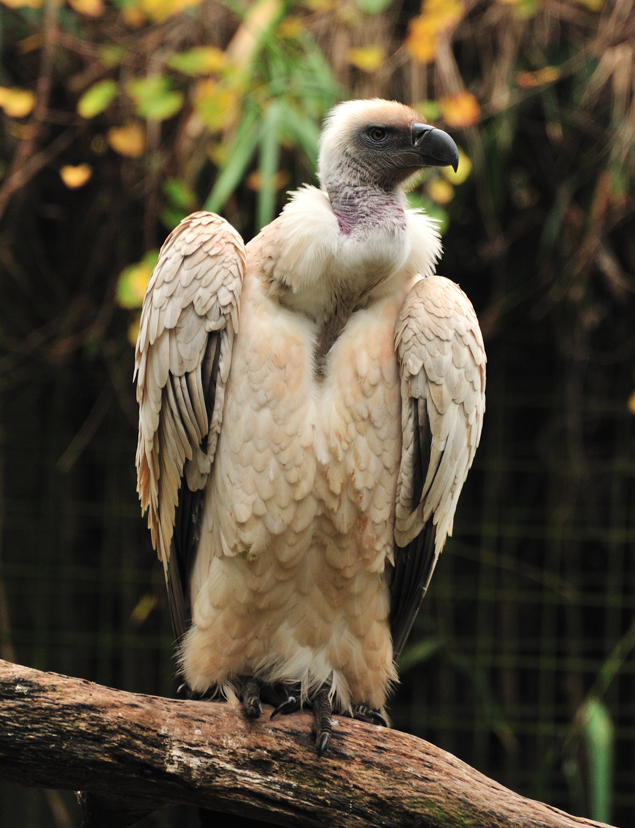 A Cape Griffon (also known as Cape Vulture) at The St Augustine Alligator Farm Zoological Park, St. Augustine, Florida.